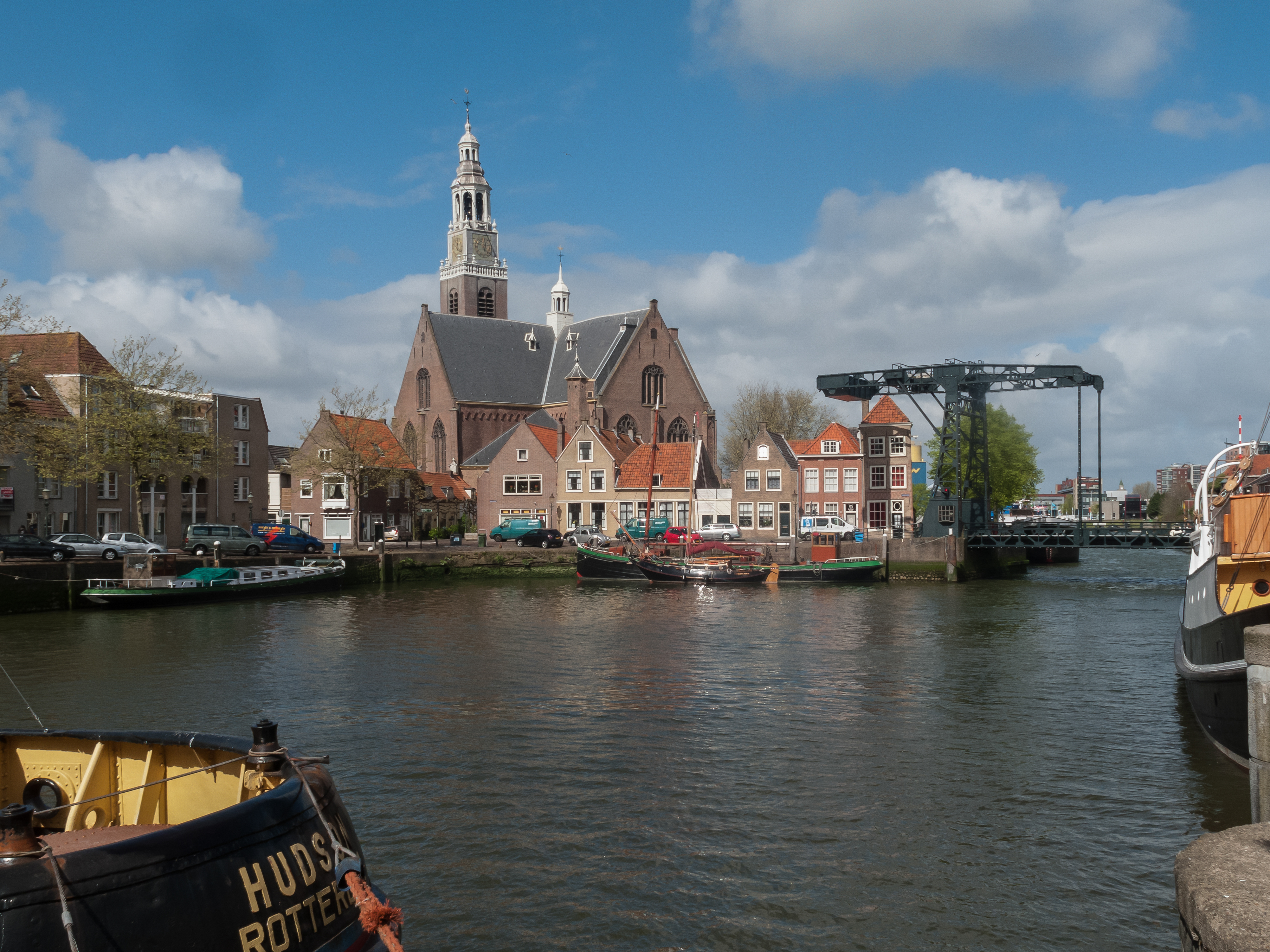 Maassluis, church (de Groote Kerk) from de Haven